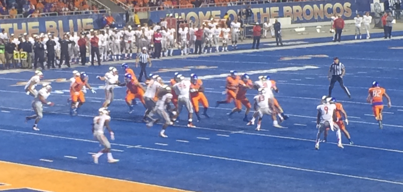 Boise State offense in the fourth quarter during the beginning of a play in which they scored a touchdown in their October 17, 2014 game vs Fresno State at Albertsons Stadium in Boise, Idaho.